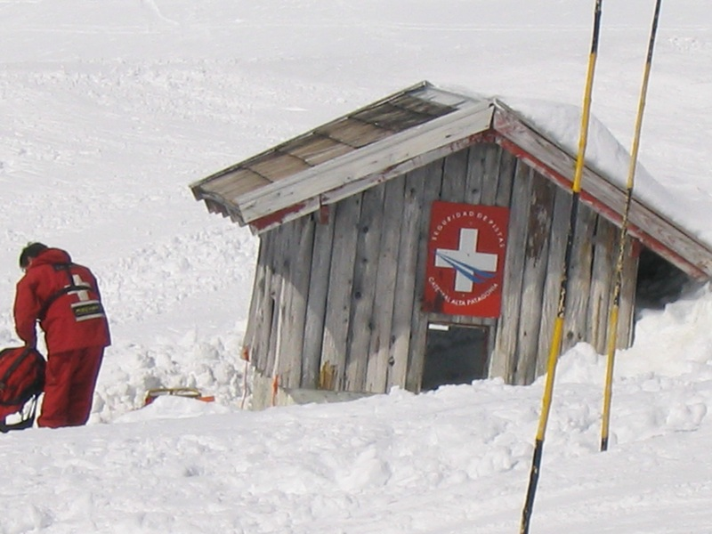 Bariloche, Patagonia (Argentina).